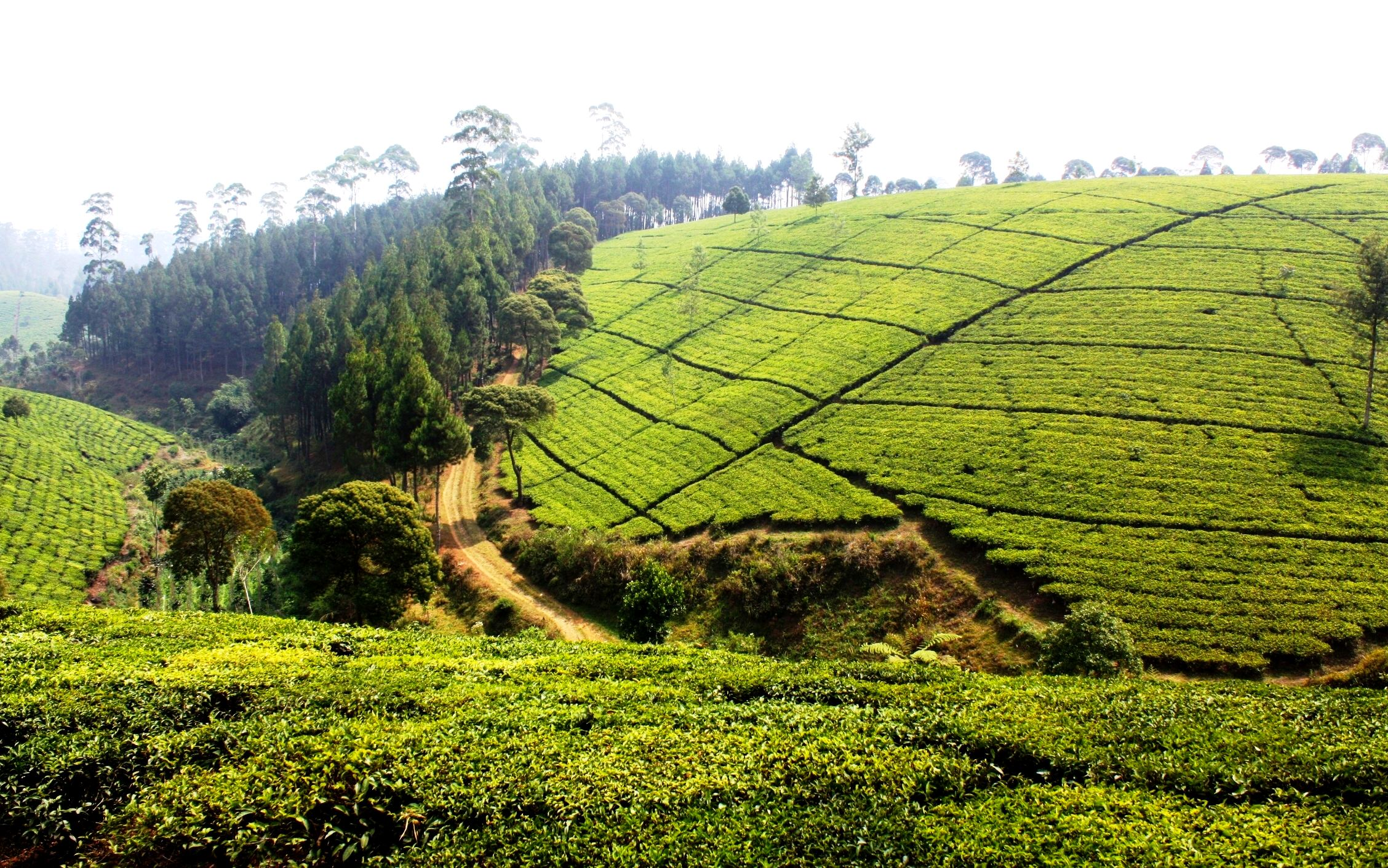 Malabar tea plantation, West Java, Indonesia